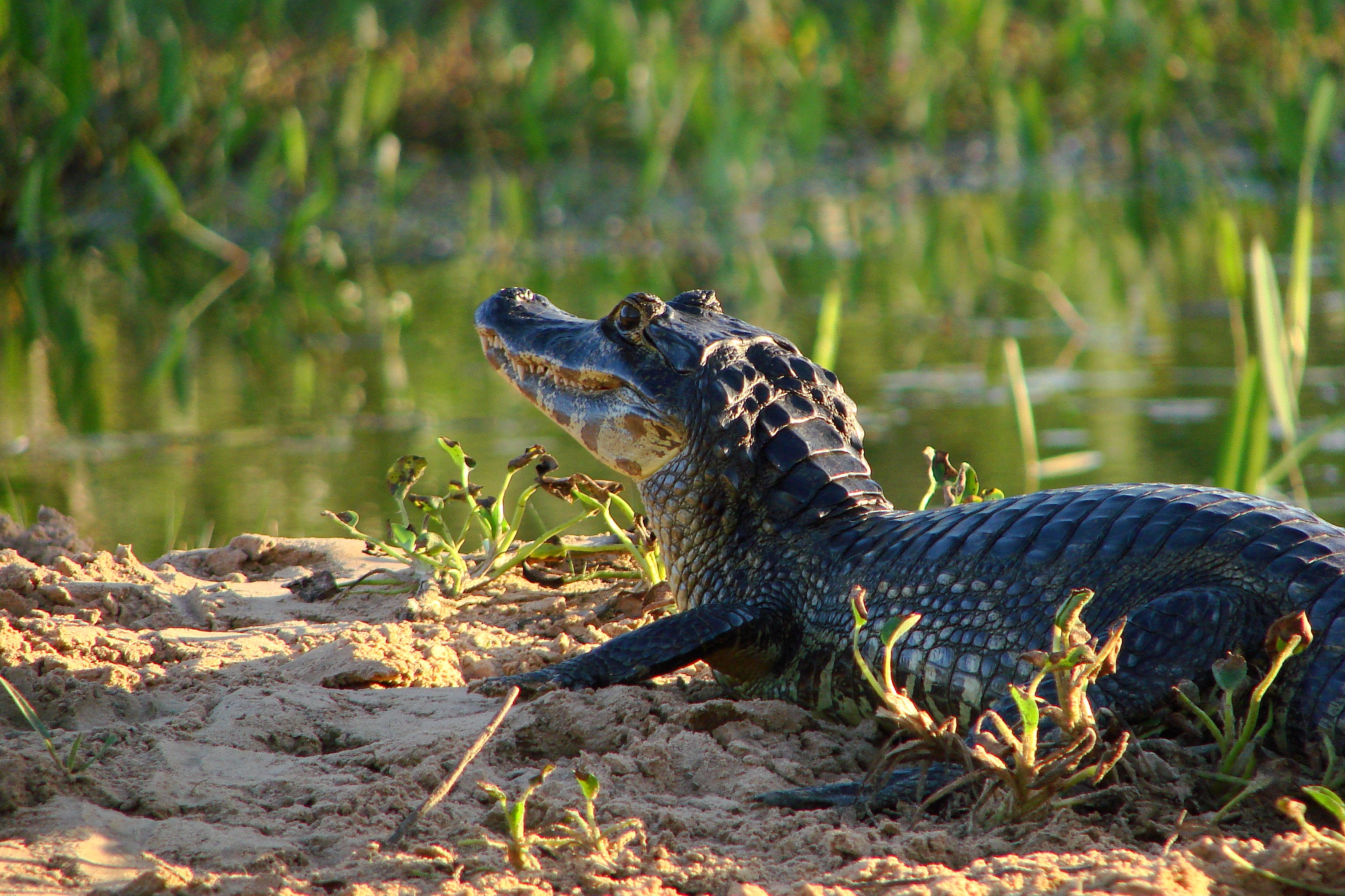 Yellow papus Alligator in Pantanal